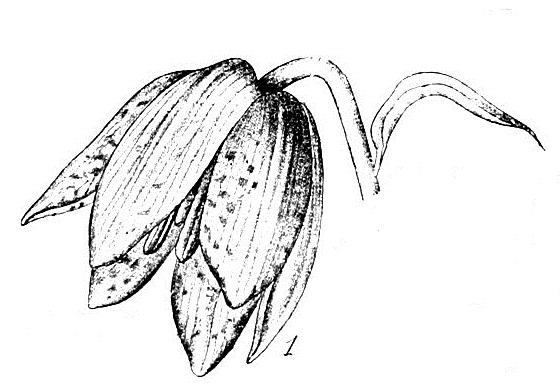 Fritillaria ophioglossifolia by Richard Wettstein in Handbuch der Systematischen Botanik, first published 1901